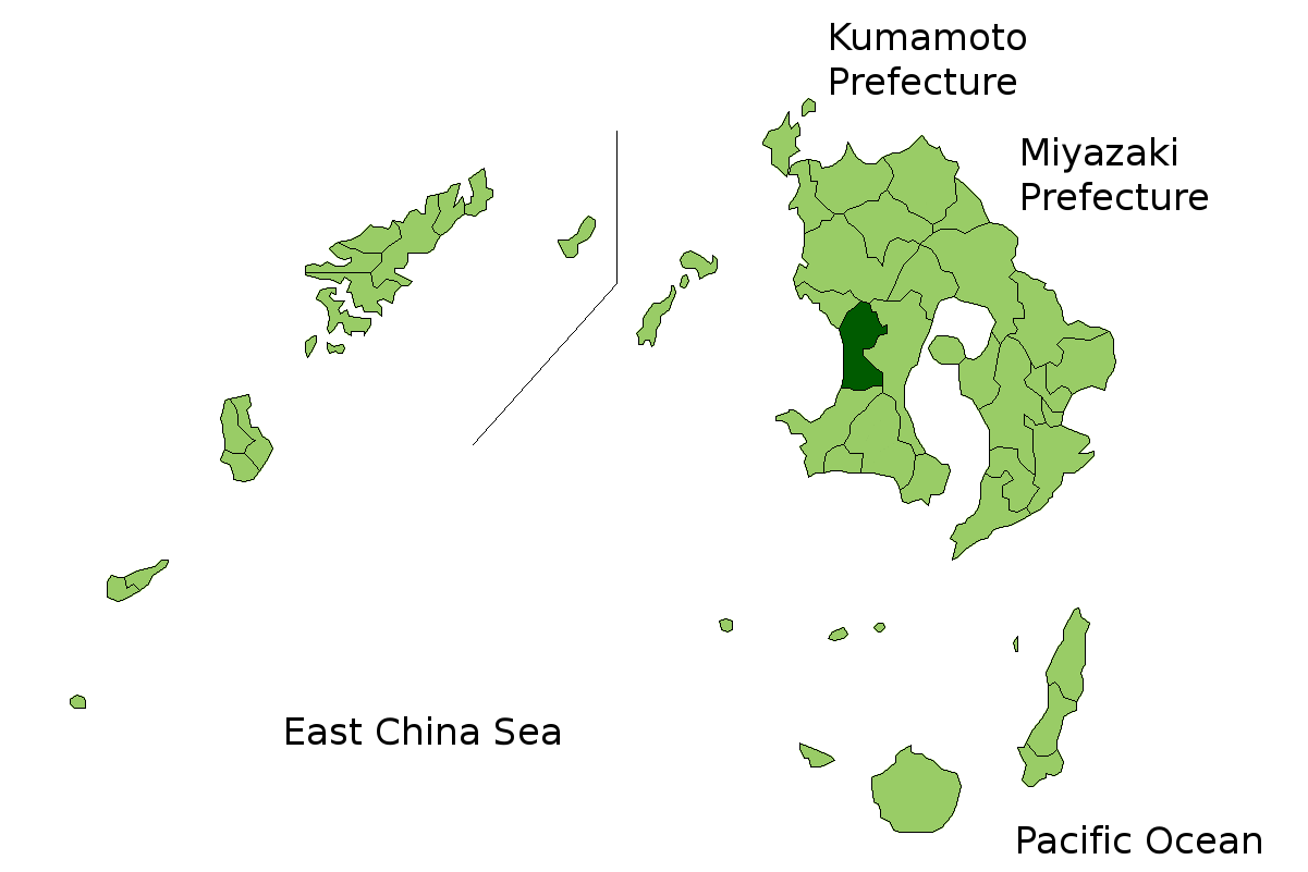 Location Map of Hioki in Kagoshima Prefecture, Japan